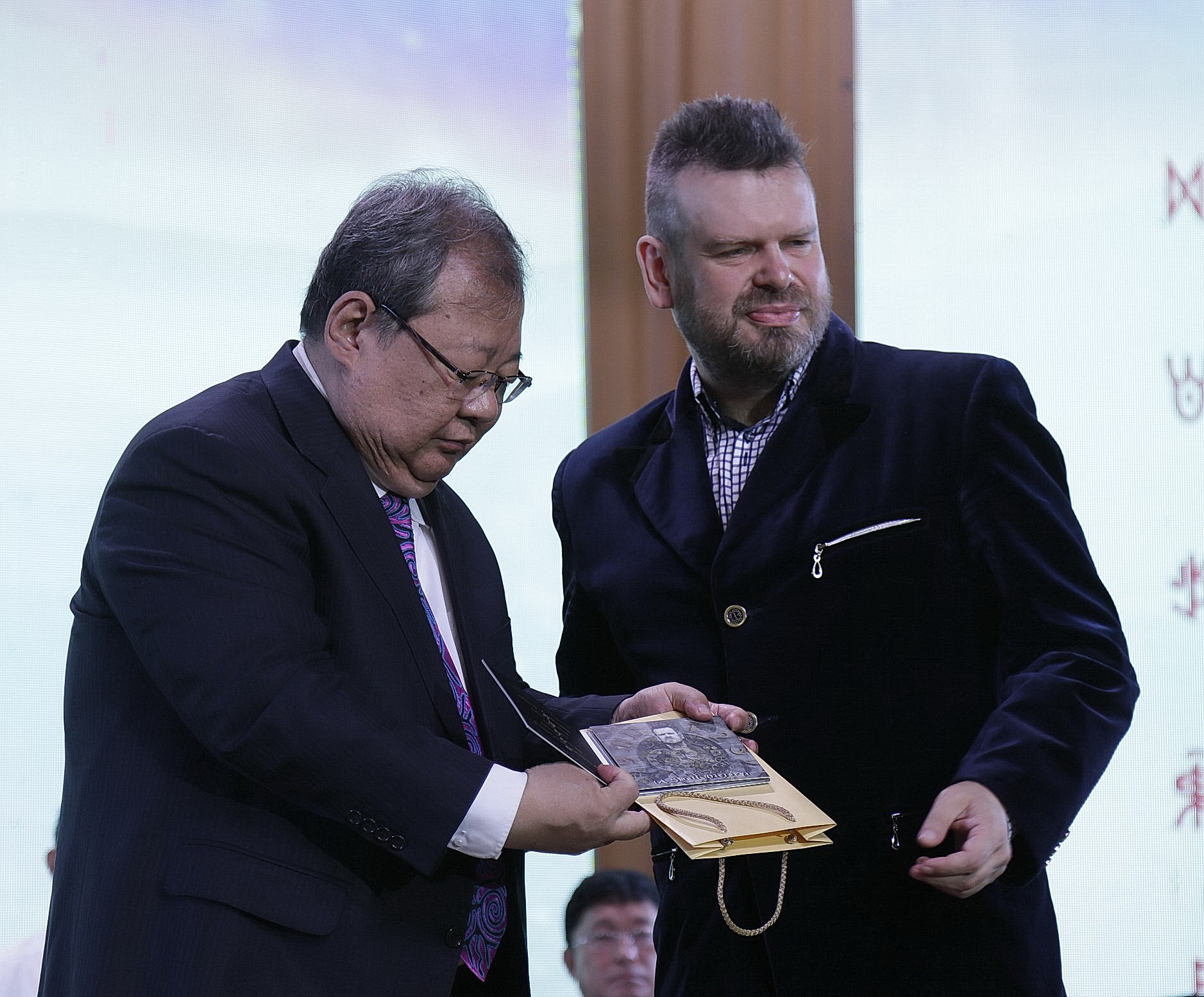 World premiere of "Katharsis (A Small Victory) in China. Jidi Majia & Jaroslaw Pijarowski (X-2017)